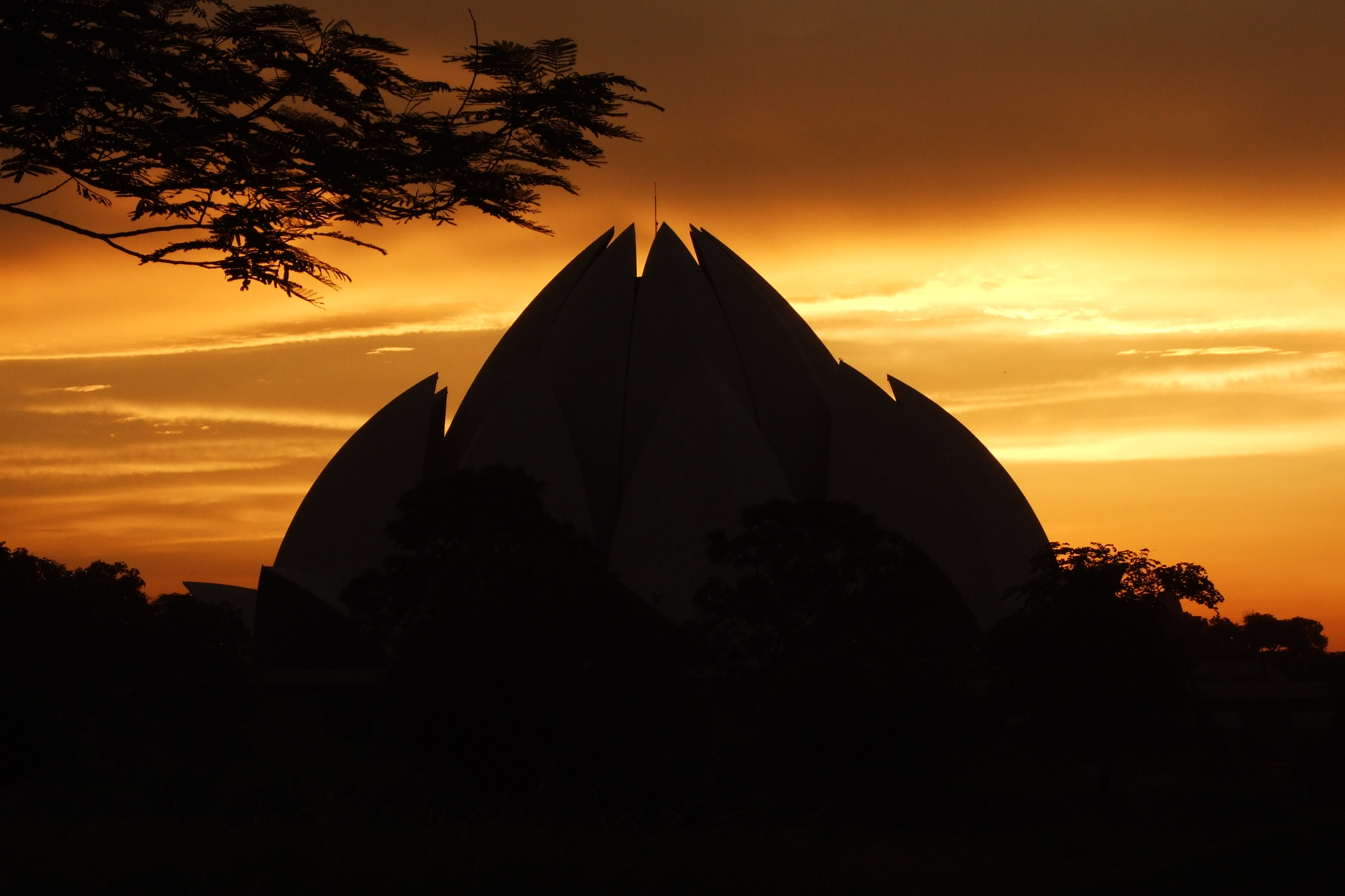 Sunset at the Bahá'í House of Worship, New Delhi, India